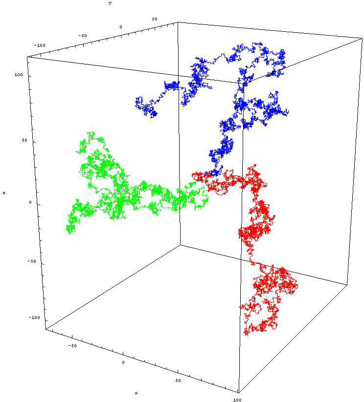 Isotropic random walk on the euclidean lattice Z 3 {\displaystyle \mathbb {Z} ^{3 . This picture shows three different walks after 10 000 unit steps, all three starting from the origin.